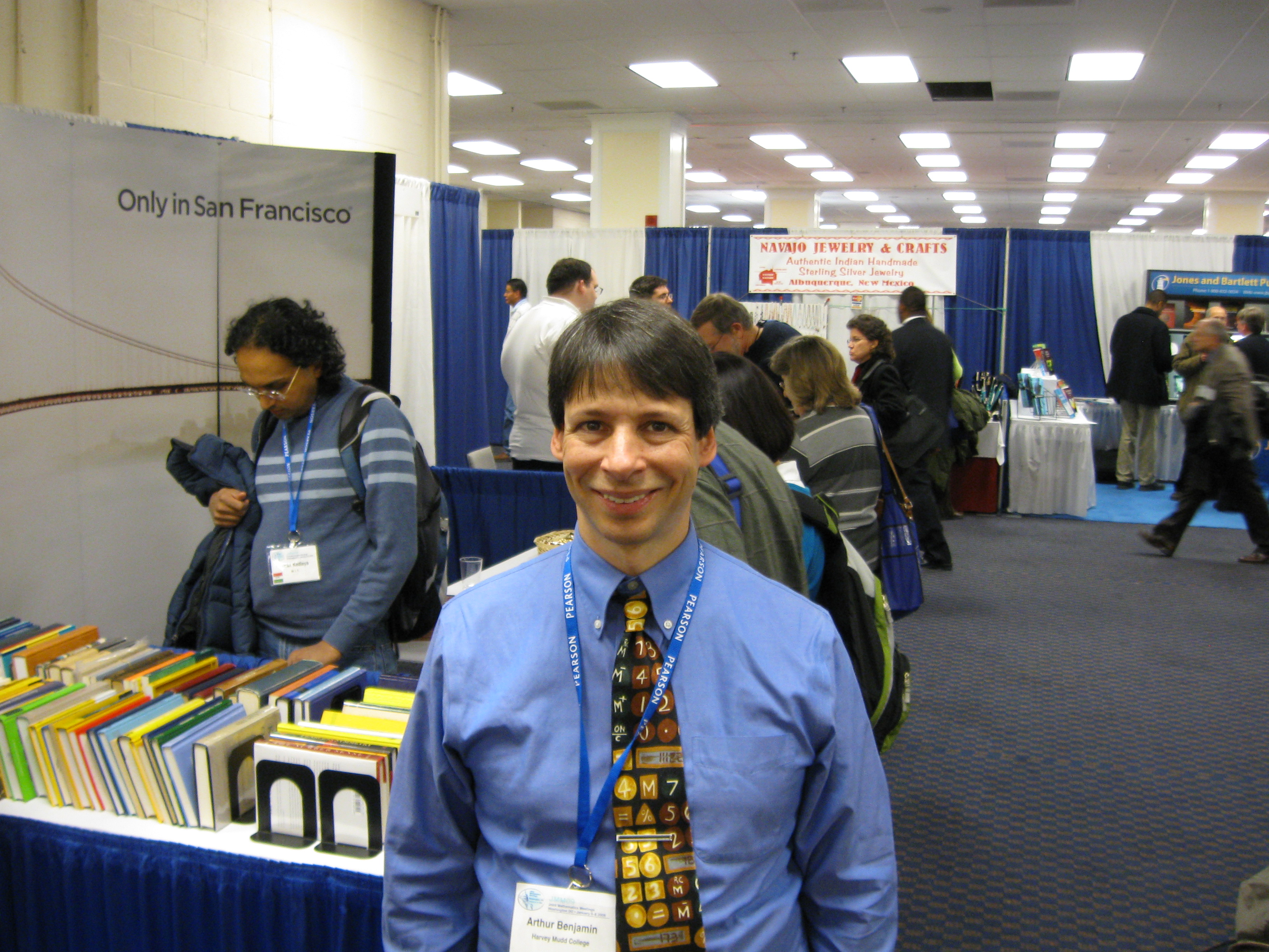 Arthur T. Benjamin, professor of mathematics at Harvey Mudd College. Photographed at the Joint Mathematics Meetings in Washington, DC, January 2009.